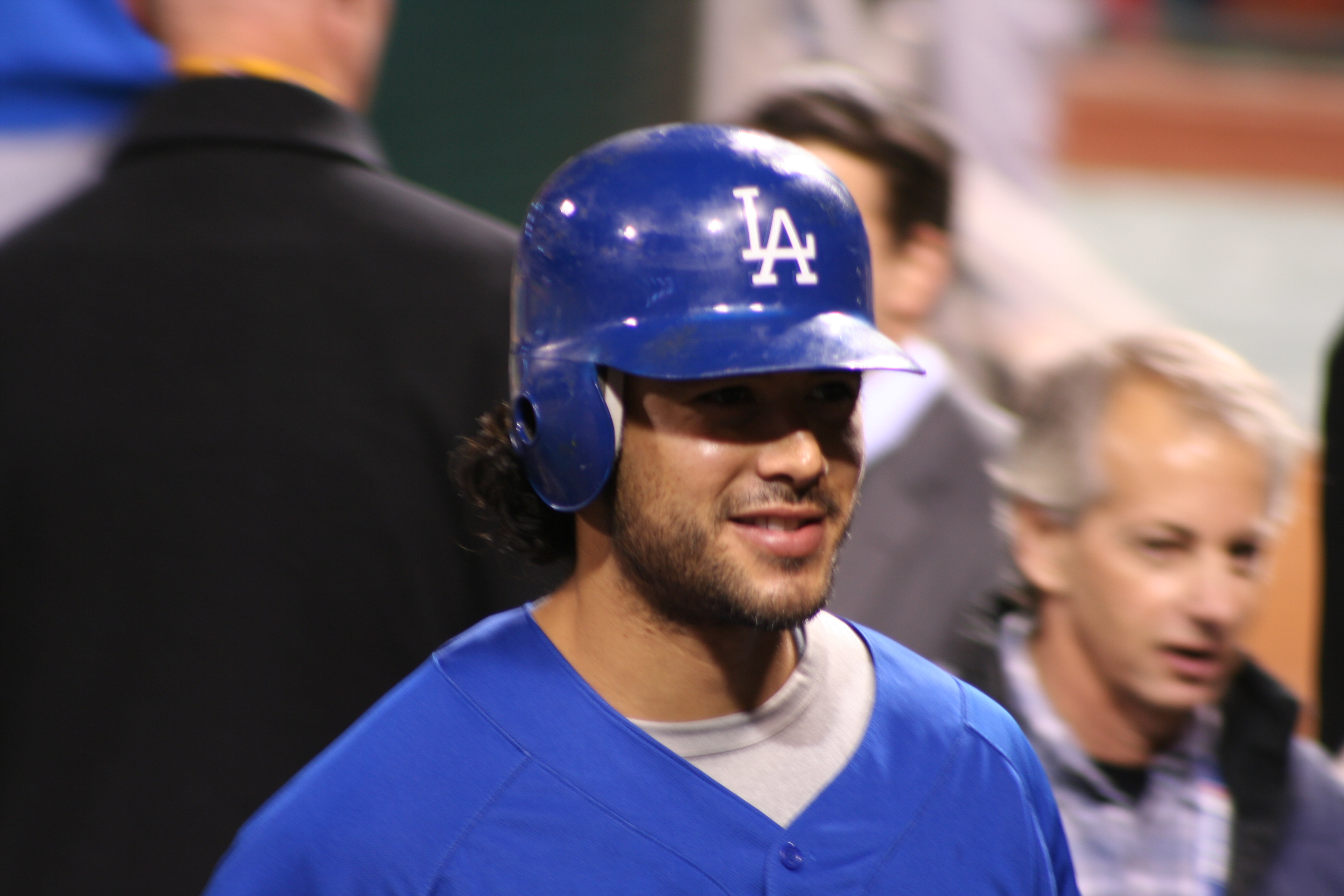 Andre Ethier